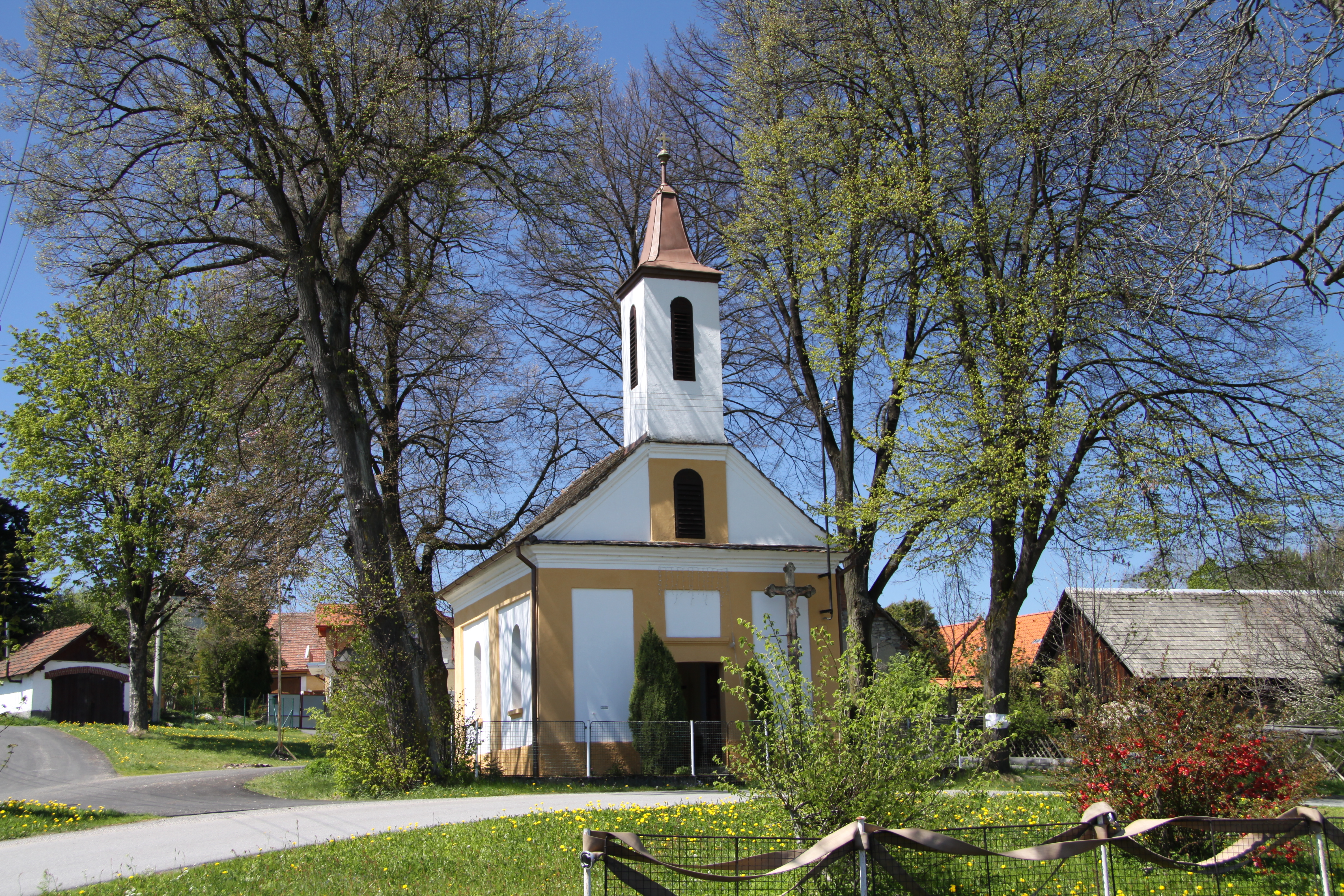 Chapel in Čábuze village, part of Vacov village in Prachatice District, Czech Republic